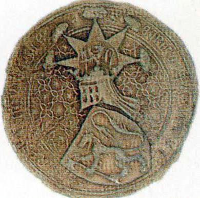 King Hacon VI of Norway, also King of Sweden, as depicted on his royal seal